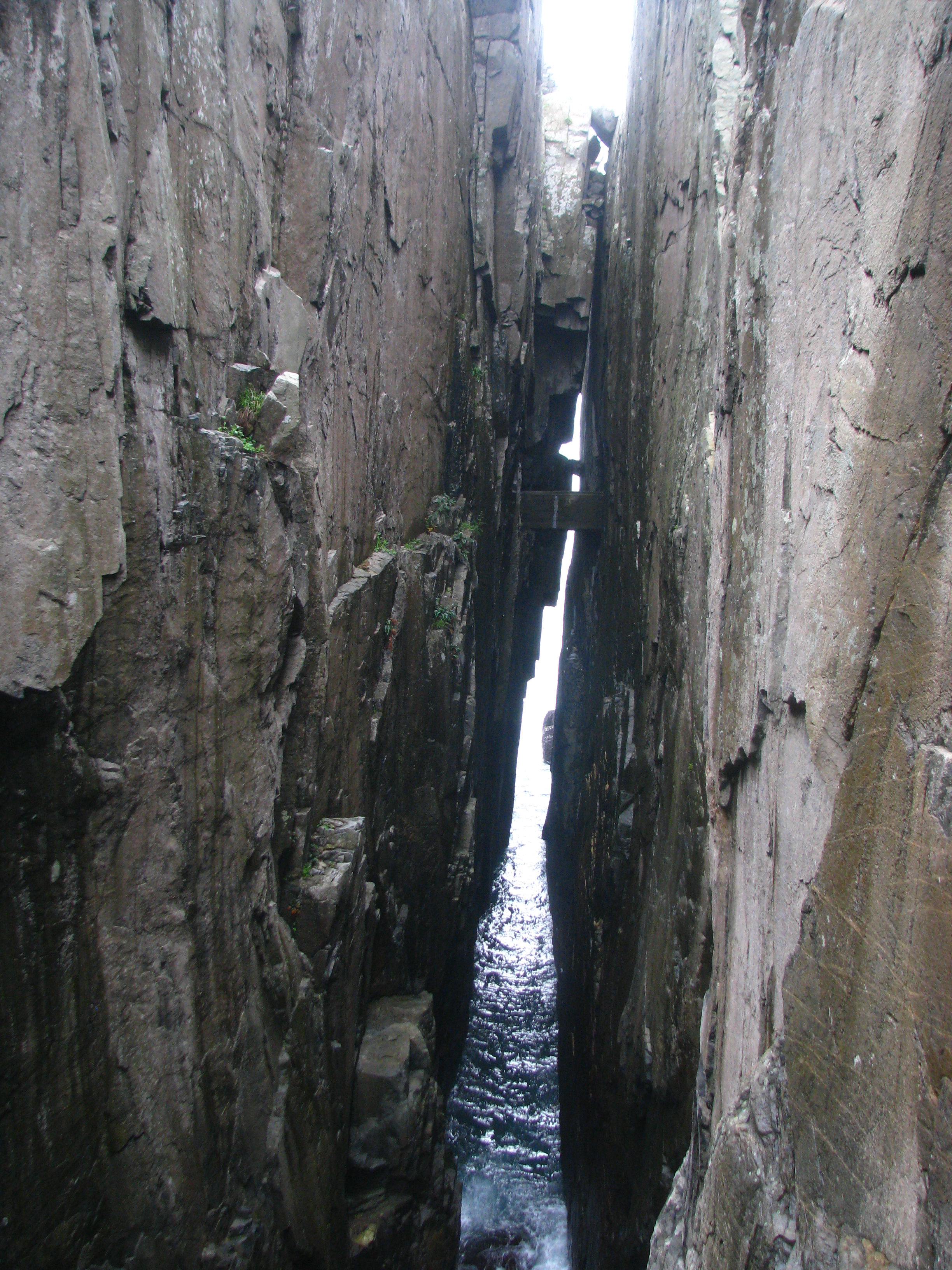 A landscape in Dongyin, Lienchiang county, Taiwan.